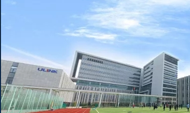 approved by Ulink College to be used in Wikipedia